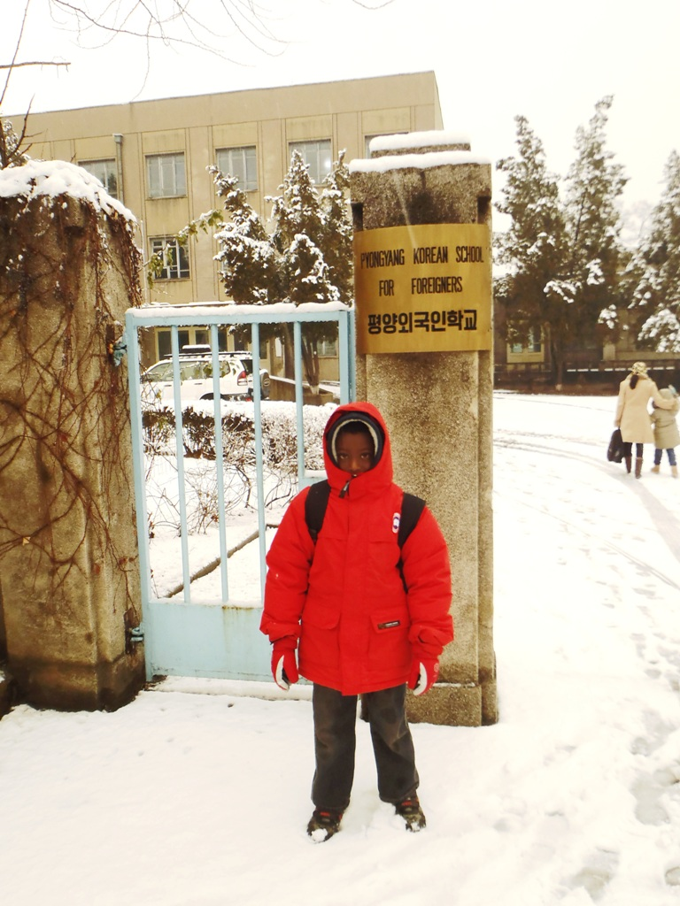 primary school student in front of the gate of the Pyongyang Korean School for Foreigners